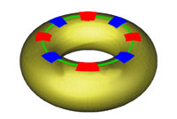 Solution of water, gaz and electricity enigma for a torus (1).